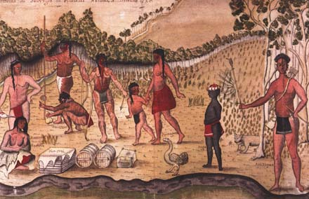 Drawing of Indians of several nations, New Orleans (colored pen and ink by Alexandre de Batz, 1735)